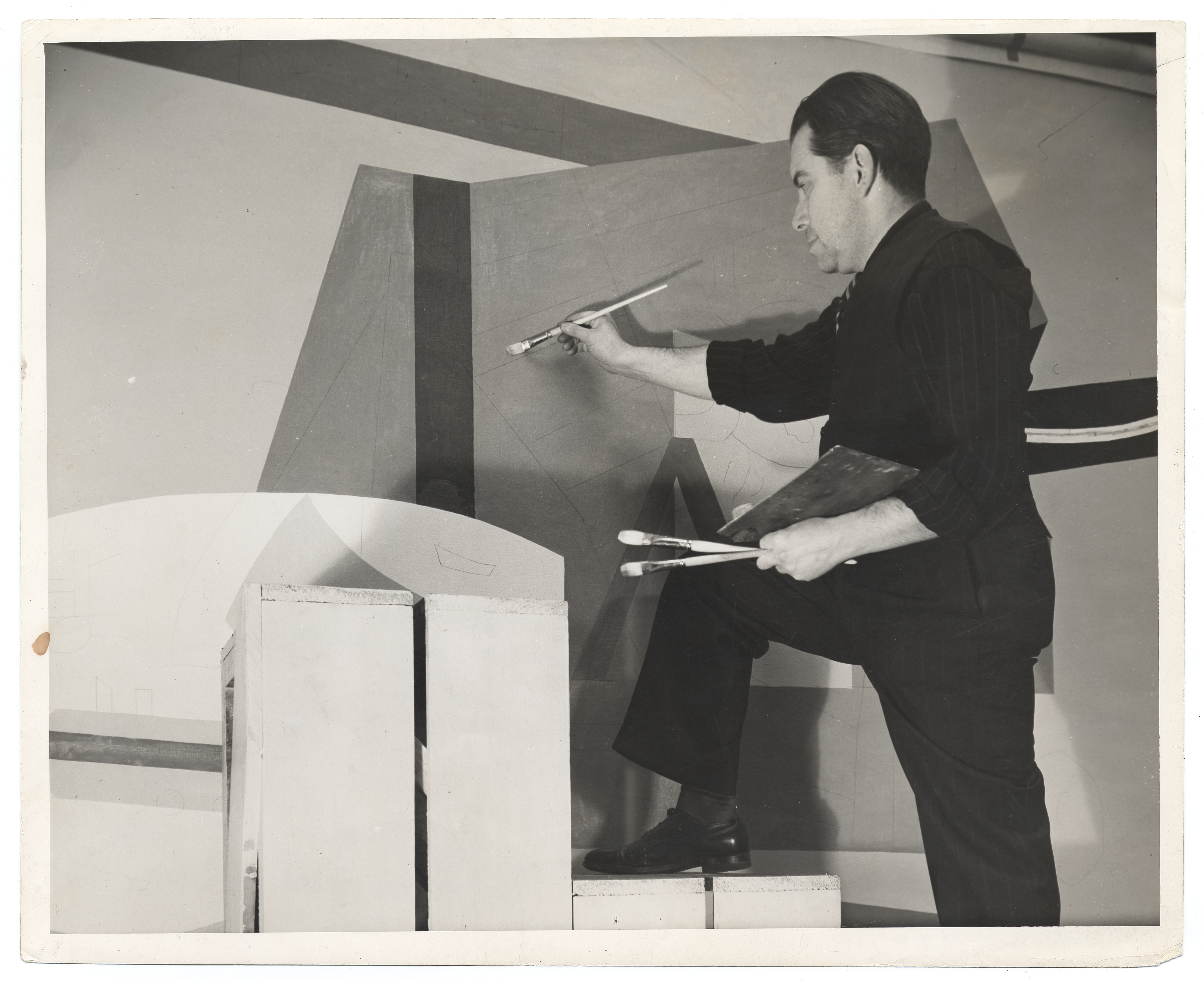 Davis at work on a canvas for the Federal Art Project. Identification on verso (handwritten and stamped): Federal Art Project W.P.A.; Photographic Division; 110 King St.; New York CityNegative No: 3631-1; Date: 1/25/39; Photographer: Sol Horn; Artist: S. Davis; Medium: mural; Location: 30 E. 14. St. N.Y.C.